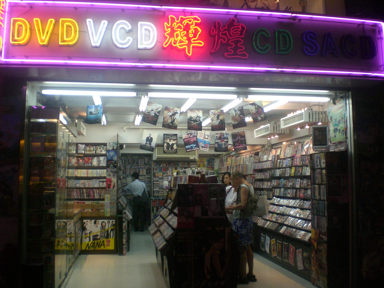 Shops in Central District, Hong Kong. Author= Saiyans16